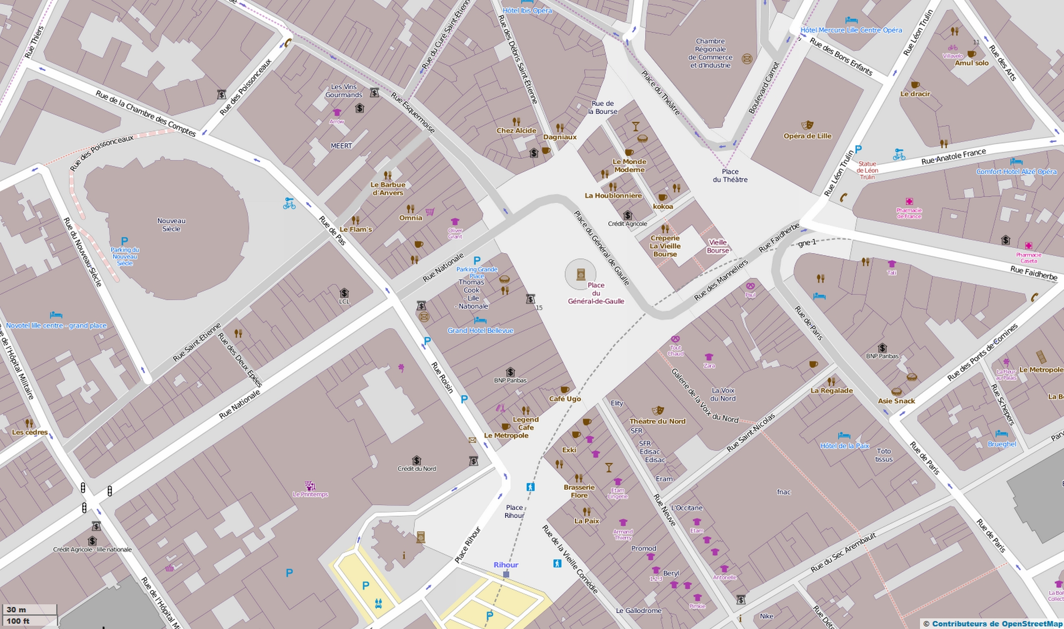 Carte de la place du Général-de-Gaulle. This map of Lille, France was created from OpenStreetMap project data, collected by the community. This map may be incomplete, and may contain errors. Don't rely solely on it for navigation.